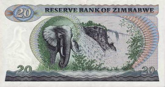 This is the obverse of a paper banknote of the Zimbabwe Dollar.